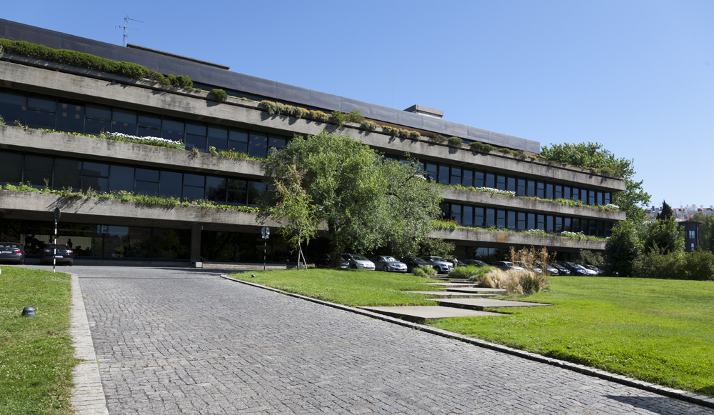 Fundação Calouste Gulbenkian, 2013